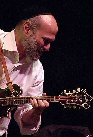 Jazz clarinetists and mandolin player Andy Statman